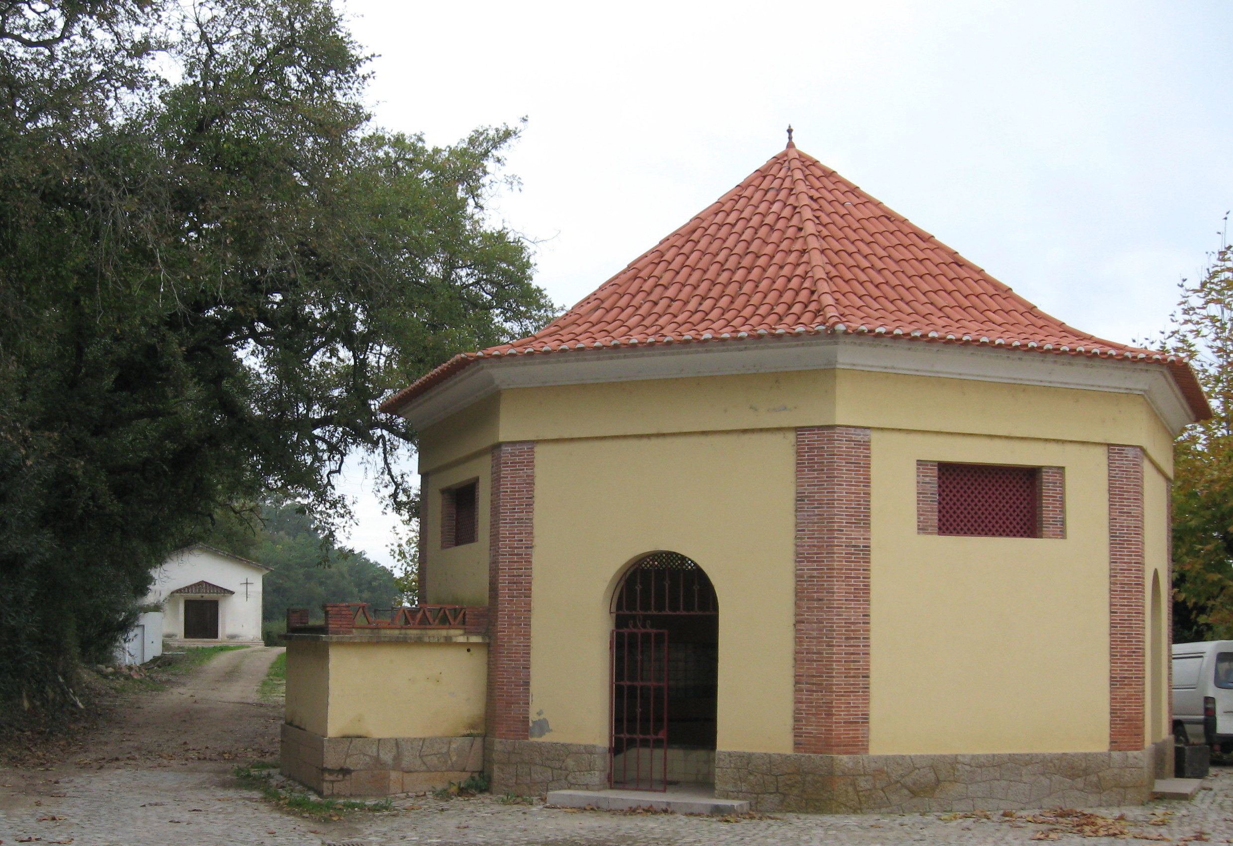 Alcobaça, Portugal, Mosteiro, Coutos de Alcobaça, Vestiaria, founded by the monke 1506, Termas de Piedade, termae, probably of Roman origin, rebuilt by the monks 16th century, bath-house with Capela de Nossa Senhora da Piedade, also 16th cent.